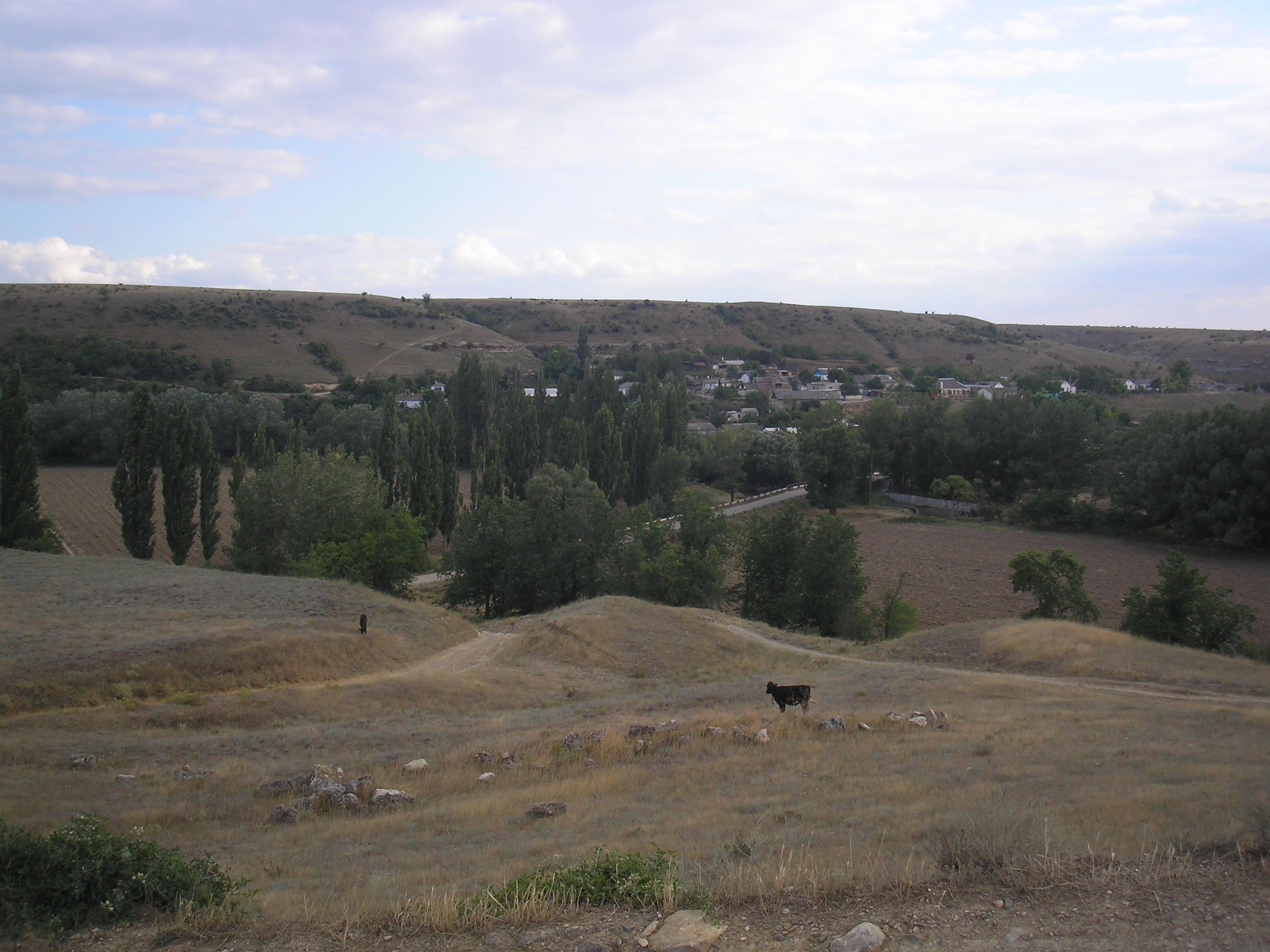 Village Balki (now Bryanskoe), Bakhchisaray Raion.